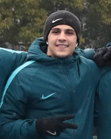 Players of Qatar's U23 team lined up for a picture at a training pitch for the 2018 AFC U-23 Championship in China.